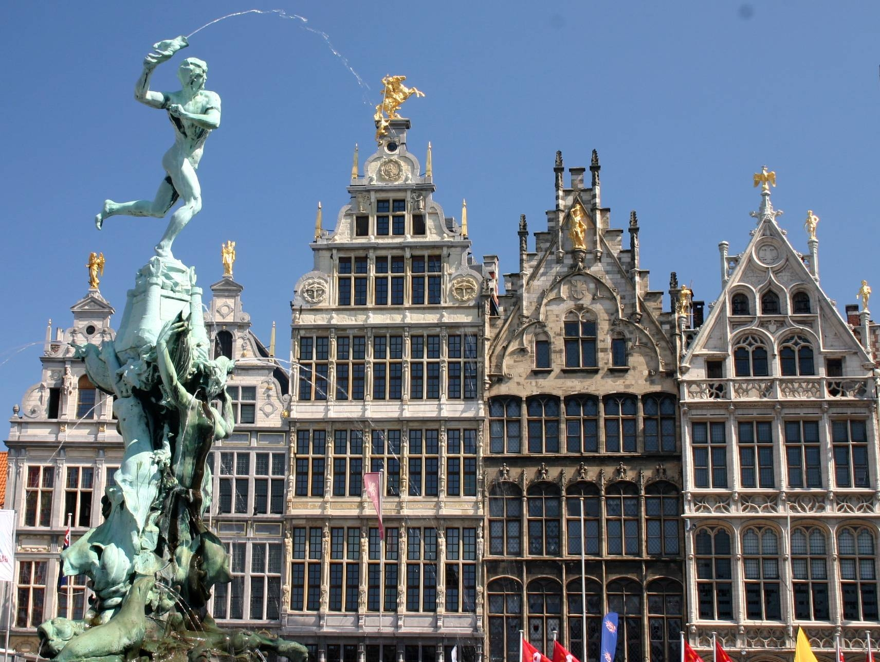 Brabo Fountain and Grote Markt, main square of Antwerp (Belgium).